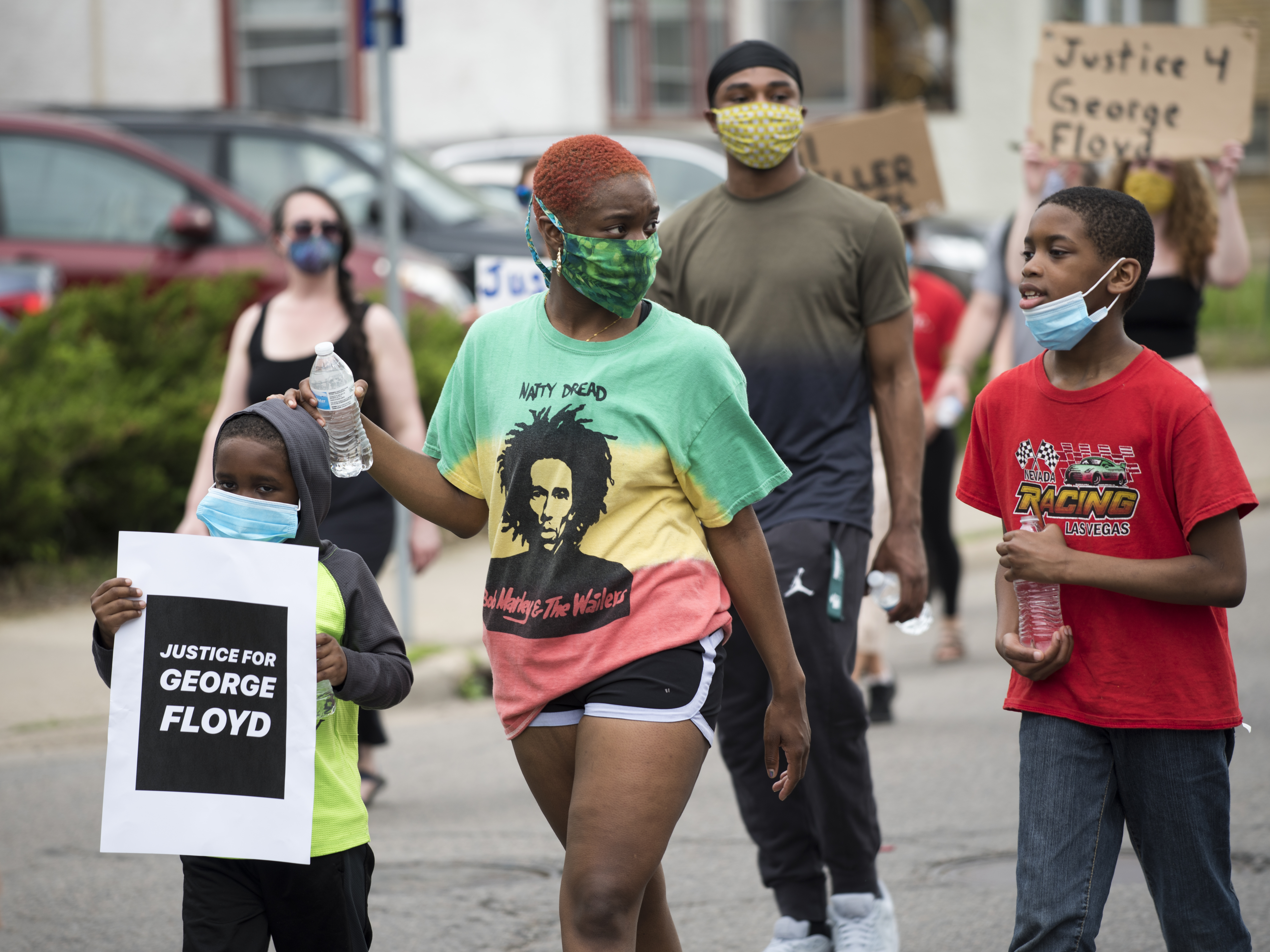 On May 26, 2020, people protested against police violence after the death of George Floyd. Several protesters walking in a street.